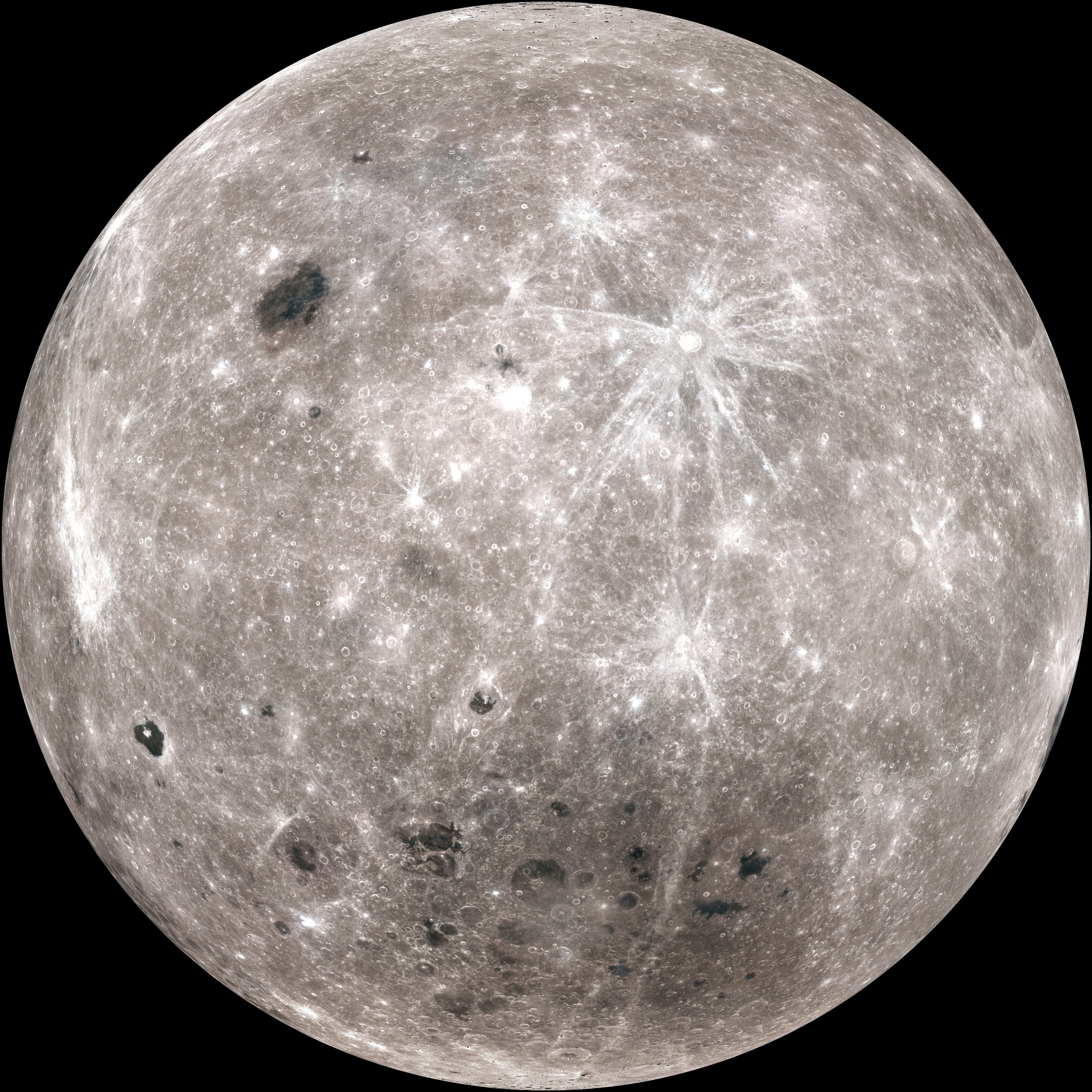 Moon farside: color mosaic of images, made by Lunar Reconnaissance Orbiter. Original photos were obtained by Wide Angle Camera (WAC) on wavelengths 689, 415 and 321 nm. Centered on latitude 0.0°, longitude 180.0°. Brightness of the original image was increased (identically as with Moon nearside LRO color mosaic.png). Places near the poles with no color data were painted with the color of adjacent places.